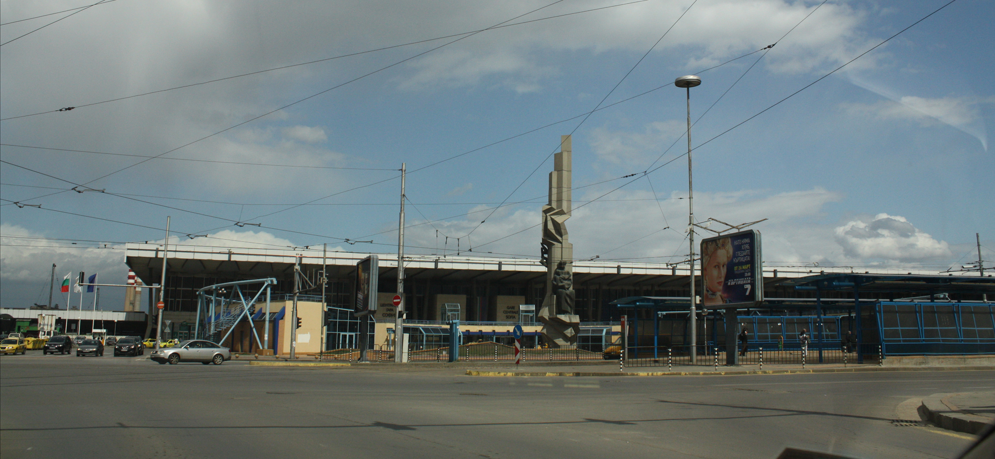 Sofia Central Railway Station (Railroad Terminal)